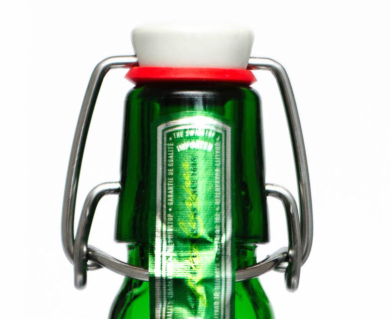 Swing top beer bottle closure, unopened. Beer shown is Grolsch premium lager.